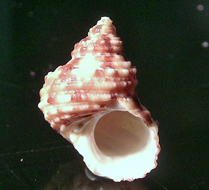 Turbo smithi G.B. Sowerby III, 1886 (synonym: Turbo fortispiralis Kreipl & Alf, 2003) , a sea snail from the family Turbinidae; Philippines